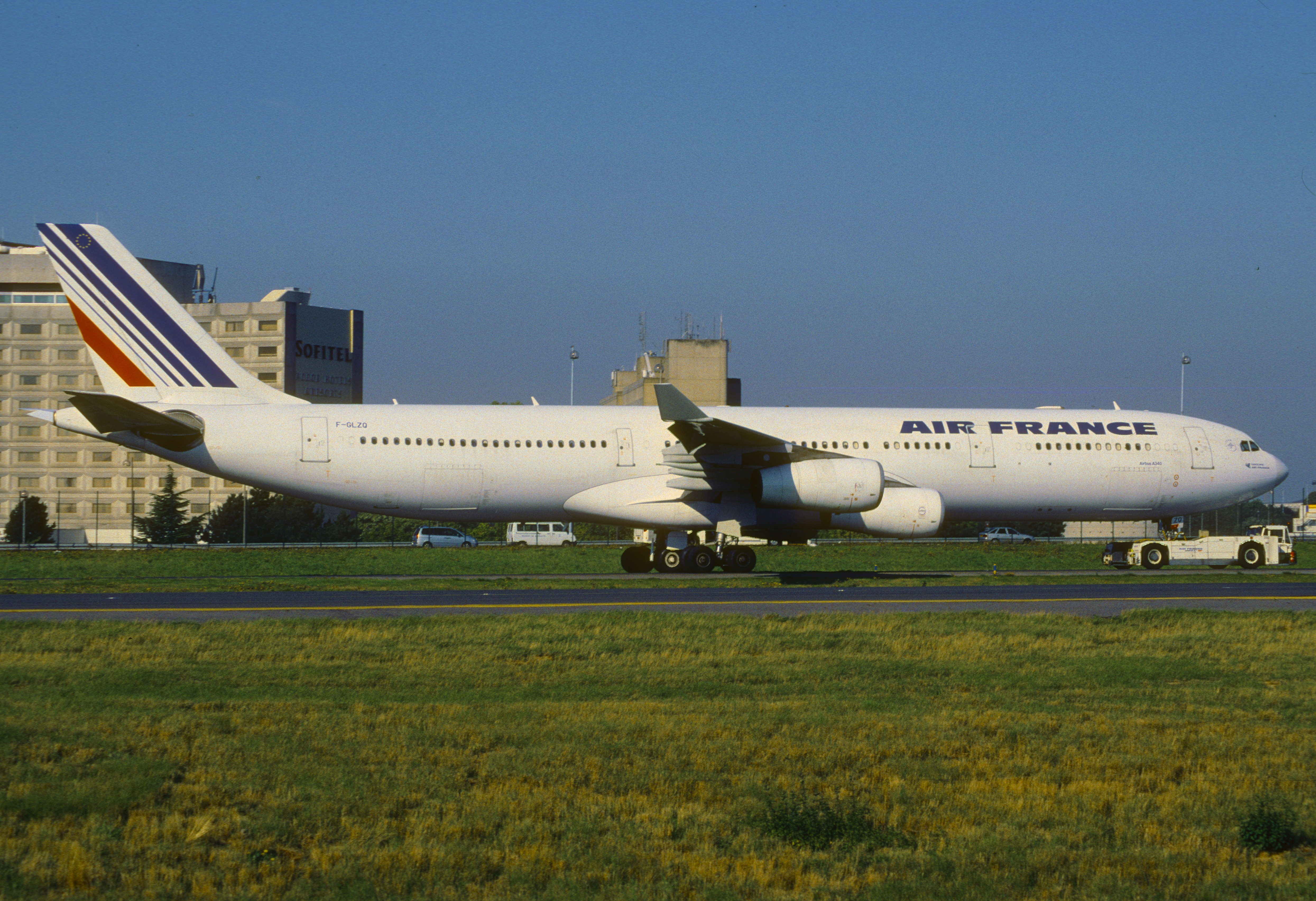 Air France Flight 358, a flight from Paris, France, to Toronto, Ontario, Canada, using an Airbus A340 airliner, departed Paris without incident at 11:53 UTC 2 August 2005, later touching down on runway 24L-06R at Toronto Pearson International Airport at 20:01 UTC (16:01 EDT). The aircraft failed to stop on the runway and plunged into a nearby shallow ravine, coming to rest and bursting into flames approximately 300 metres past the end of the runway. The Airbus A340-300 had 309 people aboard, 297 passengers (two of them infants, without seat) and 12 crew, all of whom survived with only 12 with serious injuries. The accident highlighted the role played by highly-trained flight attendants during an emergency situation.